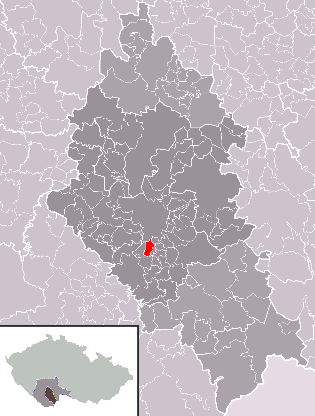 Location of Roudné municipality within České Budějovice District and administrative area of České Budějovice as a Municipality with Extended Competence.